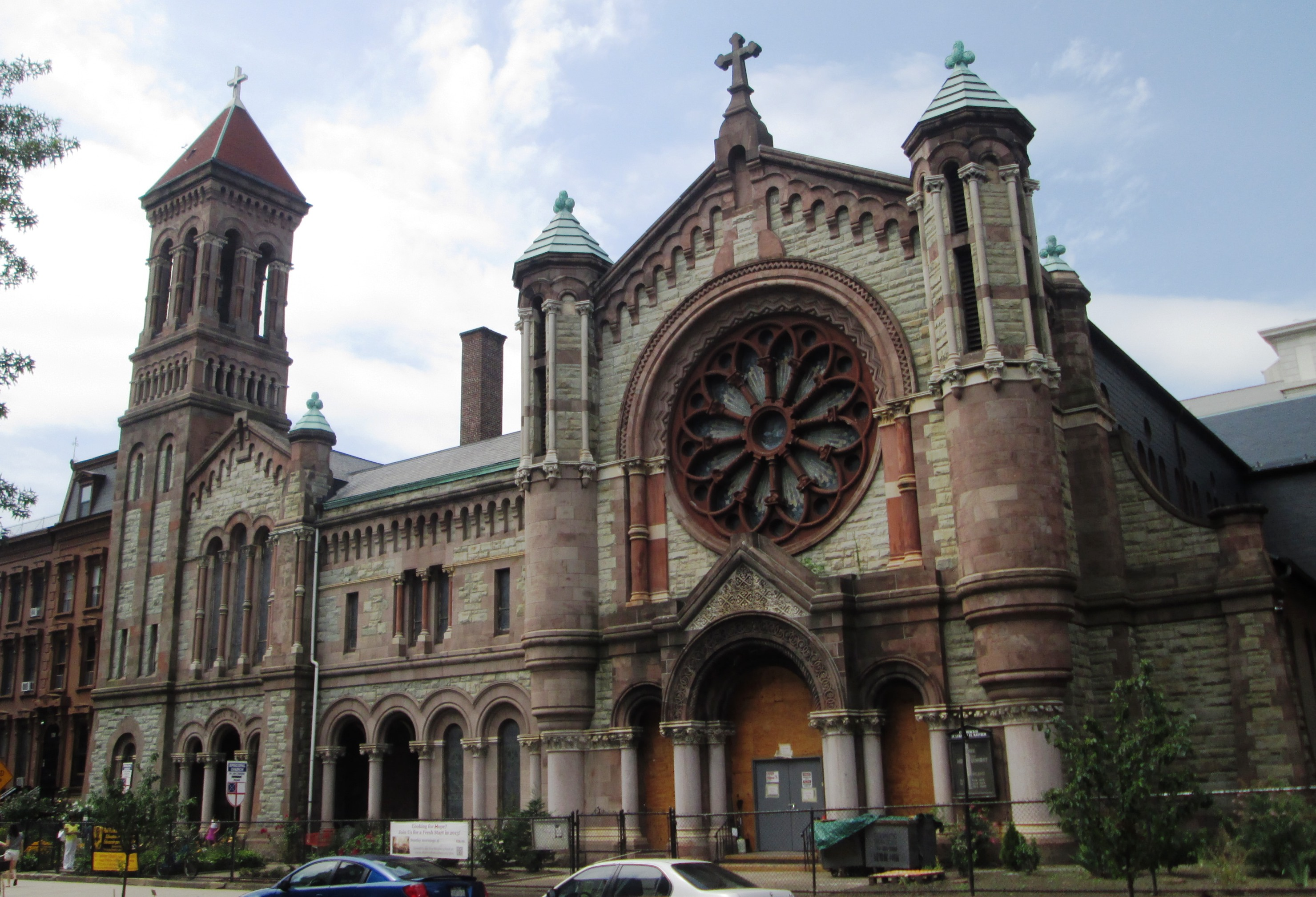 The Church of St. Luke and St. Matthew is a historic Episcopal church at 520 Clinton Avenue between Fulton Street and Atlantic Avenue in the Clinton Hill neighborhood of Brooklyn, New York City. It was built in 1888-91 as St. Luke's Protestant Episcopal Church and was designed by John Welch in the Romanesque Revival style. The AIA Guide to New York City describes the building's "great facade" as "Eclecticism gone beserk," while the Guide to New York City Landmarks calls it "one of the grandest ecclesiastical buildings in Brooklyn." The congregation of St. Luke's was founded in 1841.